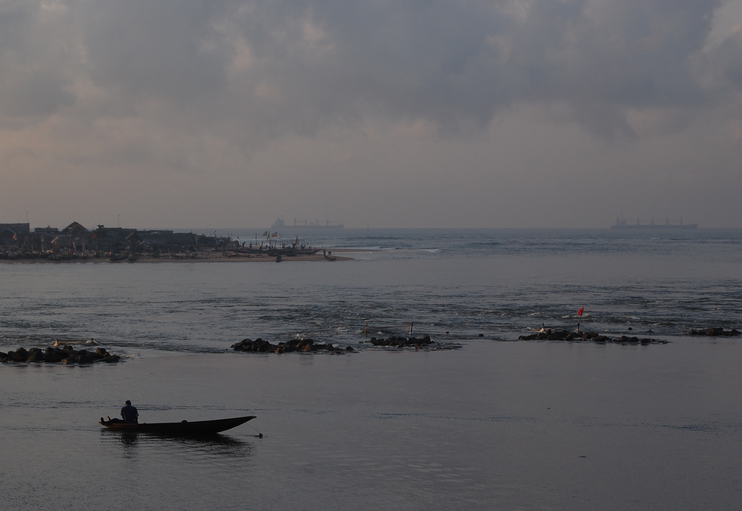 Oueme River as it empties in the Atlantic Ocean at Cotonou, Benin